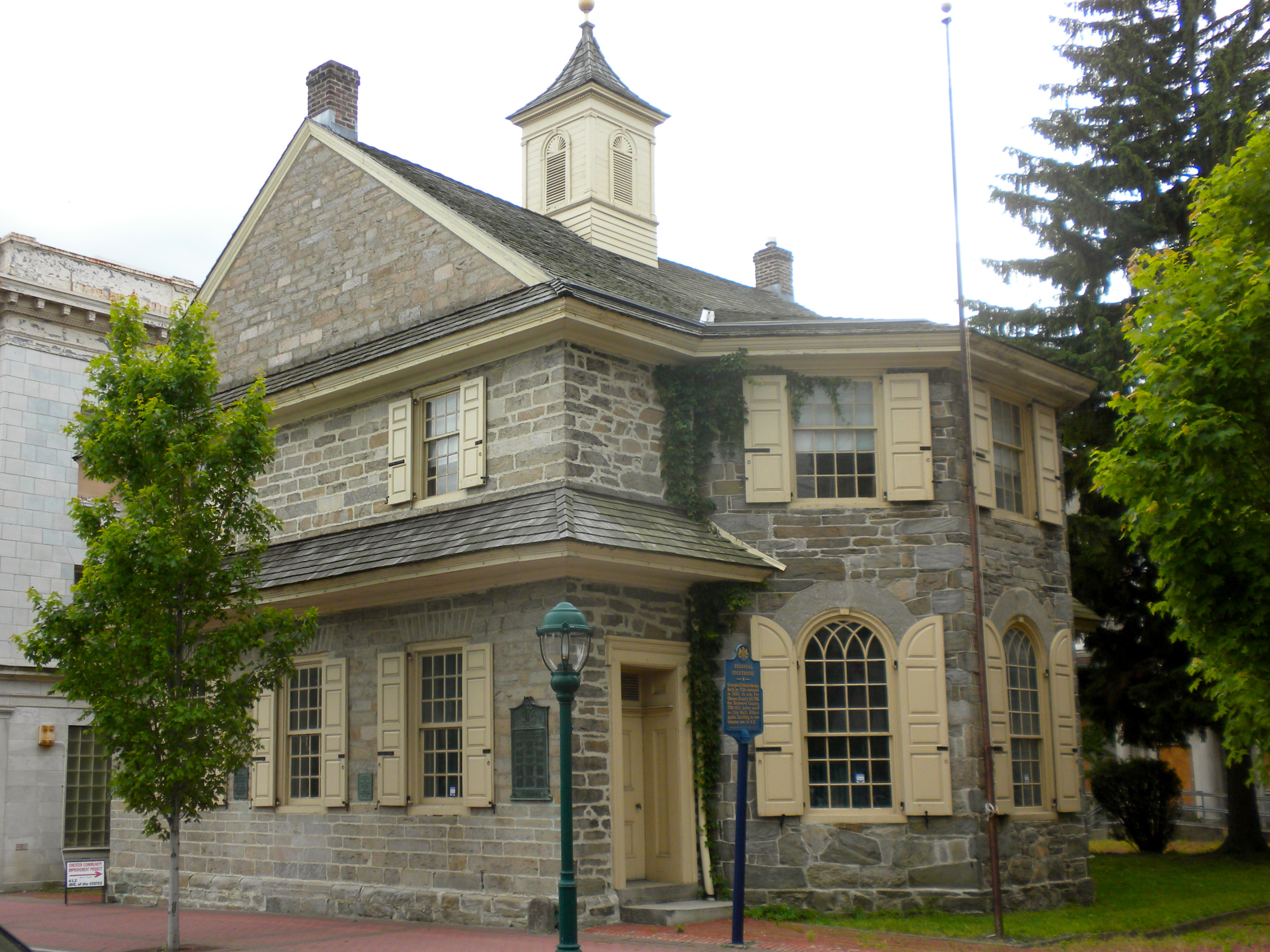 Chester Court House in the City of Chester, PA on Avenue of the States. Not to be Confused with Chester County Courthouse in West Chester PA. Built in 1724, in operation until at least 1967. Replaces a similar photo I only uploaded to Wikipedia. 1724 Chester Courthouse on NRHP since May 27, 1971. Chester